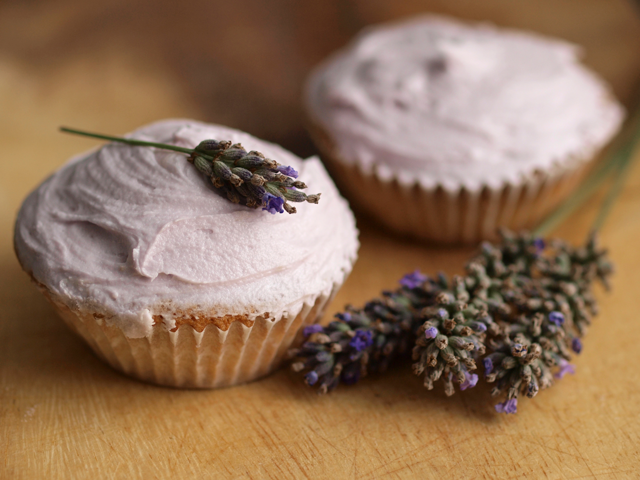 Flickr description: Lavender infused cupcakes. Lit by the setting sunlight, diffused by a thin white curtain, through my kitchen window.